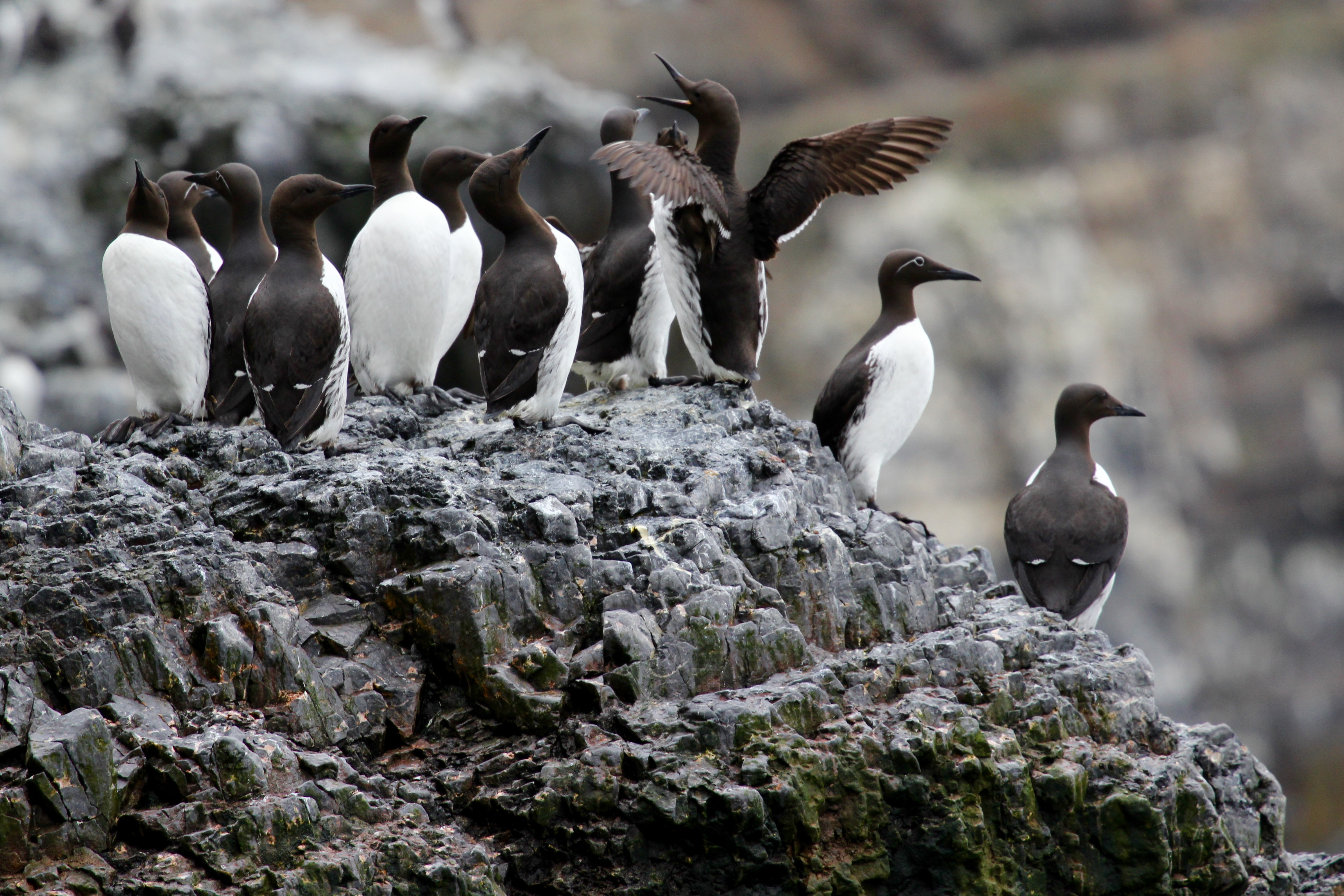 Pictures taken on my Silversea Silver Explorer Arctic cruise. For more on the cruise and dates visit bit.ly/ArcticCruise